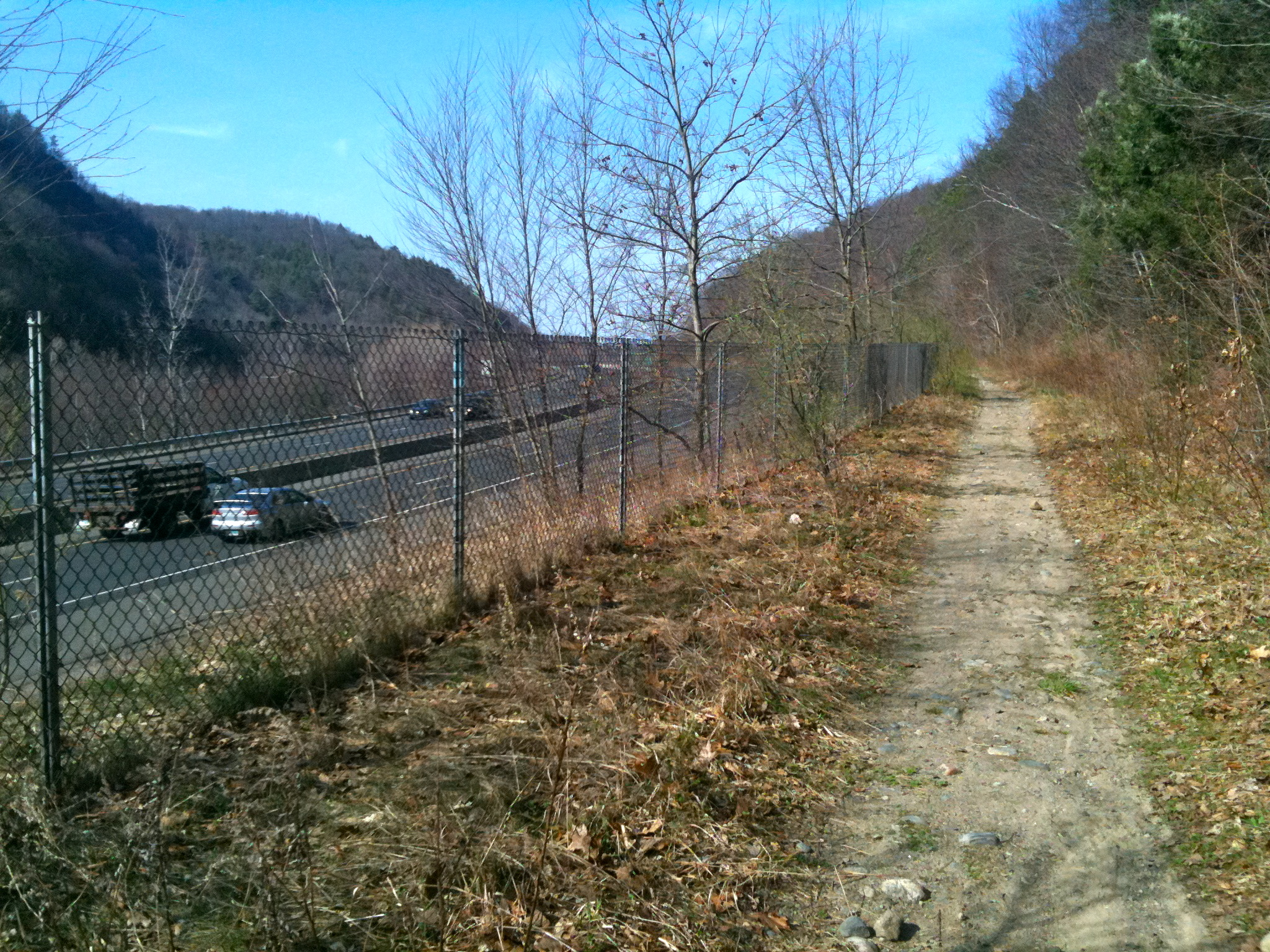 Naugatuck Blue-Blazed hiking trail in Beacon Falls,CT section of Naugatuck State Forest near CT Route 8.